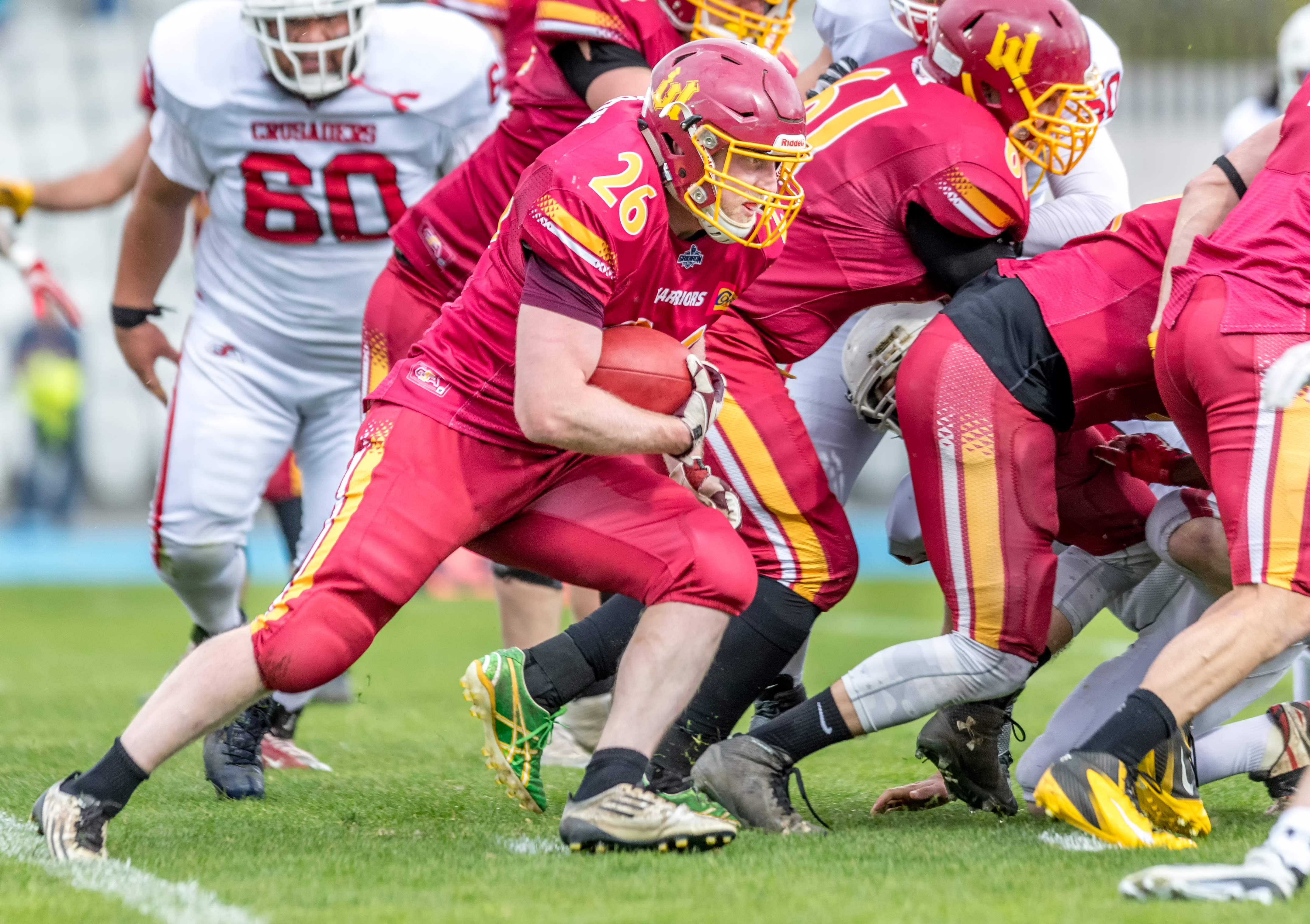 Luke Jackson 26 Offensive Most Valuable Player of Monash Warriors during the Gridiron Victoria Vic Bowl 2016 match between Western Crusaders and Monash Warriors at Lakeside Stadium Albert Park in Melbourne Australia. Monash Warriors defeat Western Crusaders 16-12